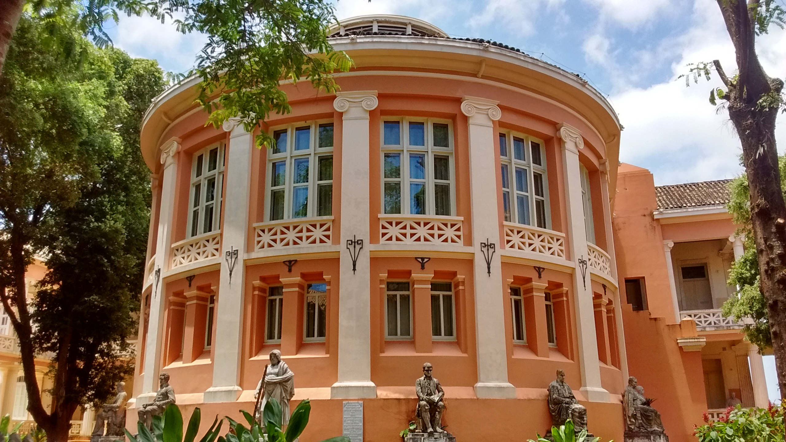 Bahia Medical School